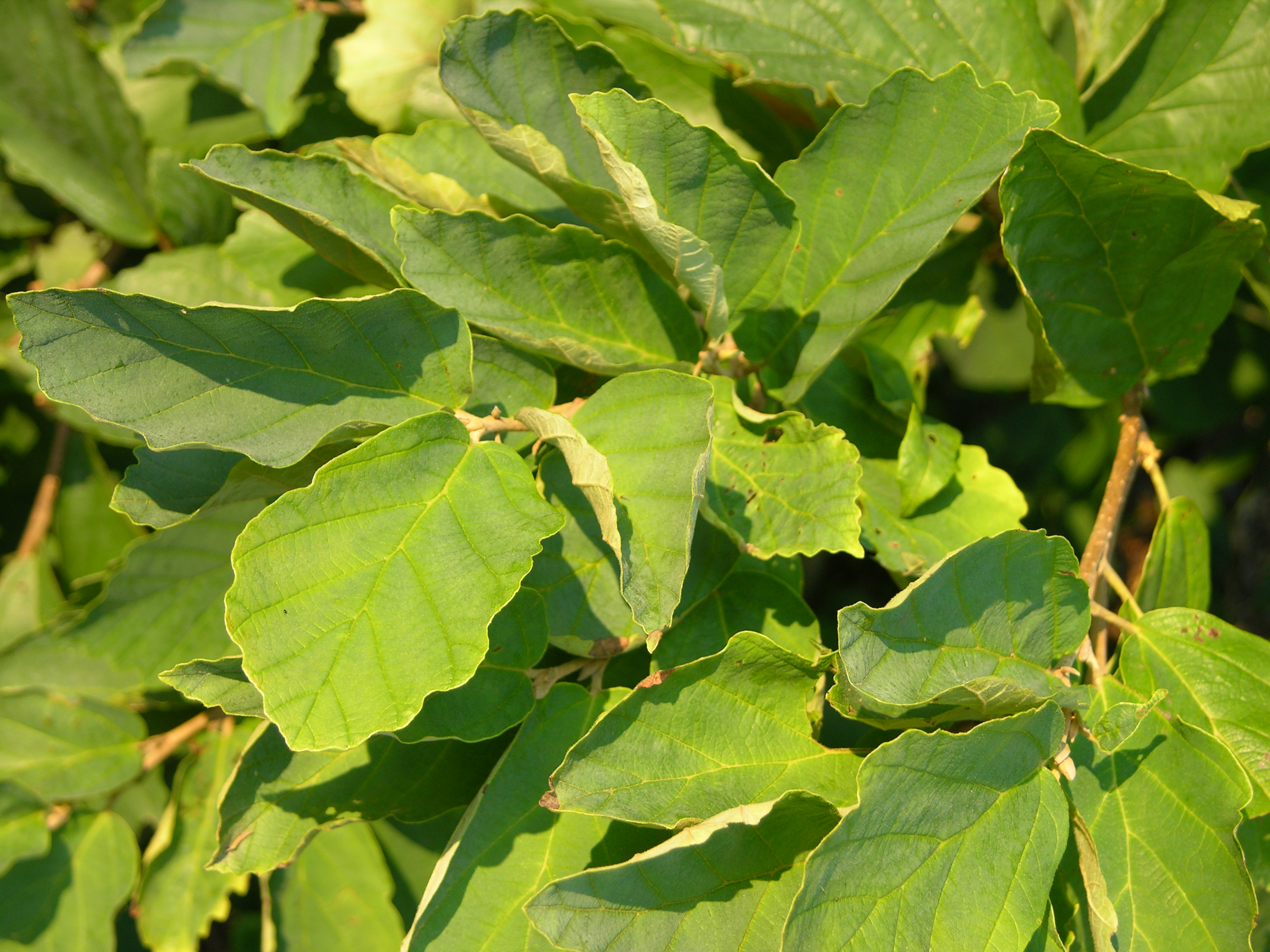 Photograph of the Vernal Witch-hazelen (Hamamelis vernalis en 'New Year's Gold'). Photo taken at the Tyler Arboretum where it was identified.